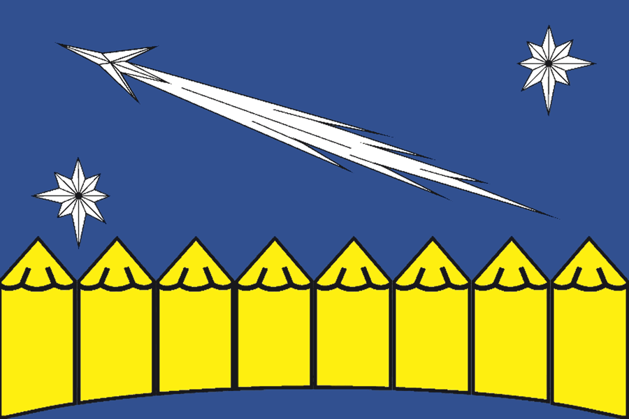 Ostankinsky (rayon of Moscow), flag